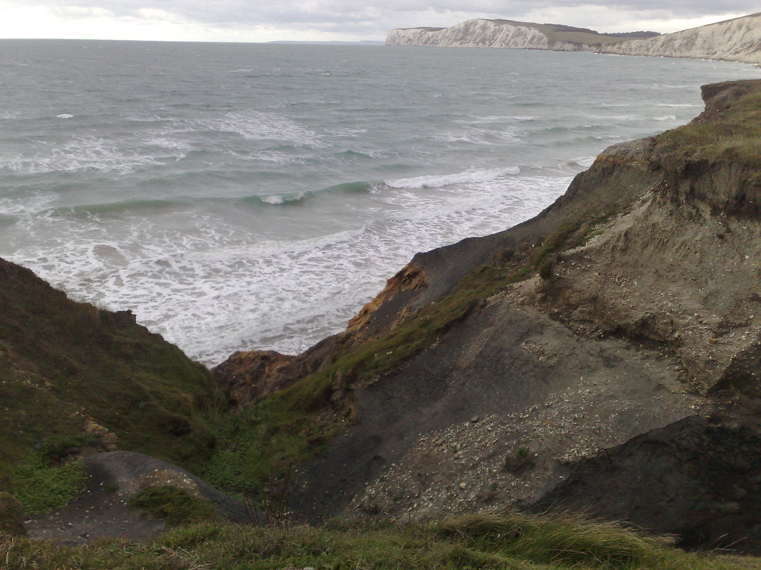 Compton Chine on the IOW with Tennyson Down in the distance to the west